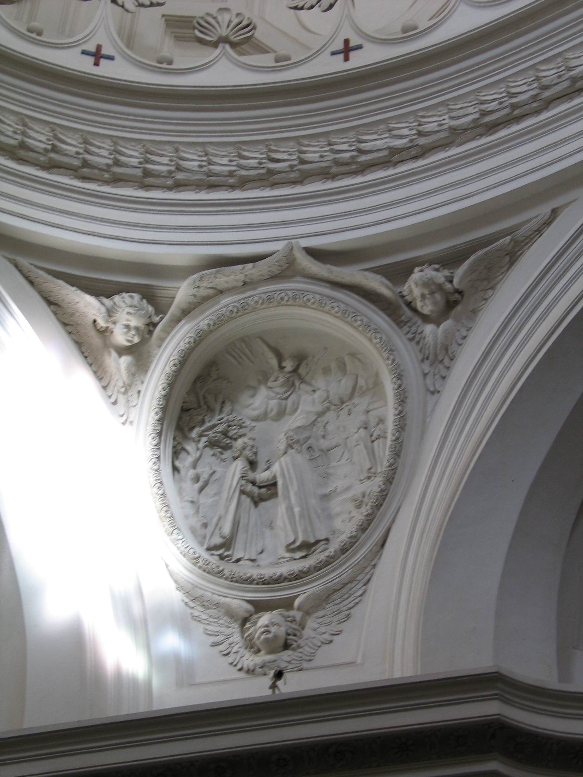 Tondo with the meeting of Felix of Valois and John of Matha by Giuseppe Bernasconi and Giulio Bernasconi